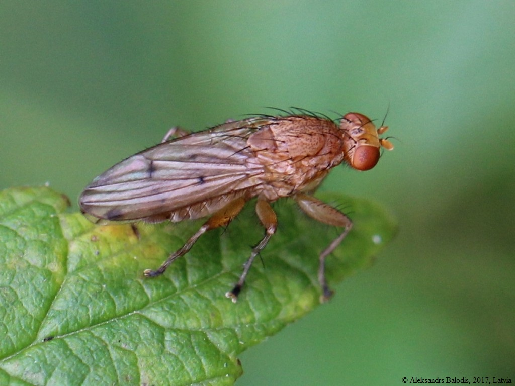 Suillia gigantea